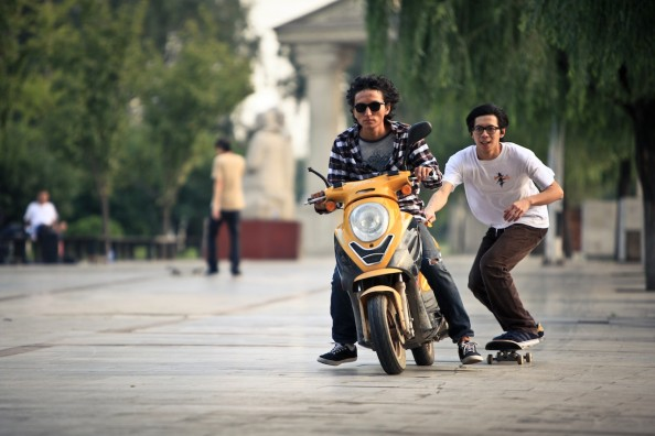 Photo: Terry Xie